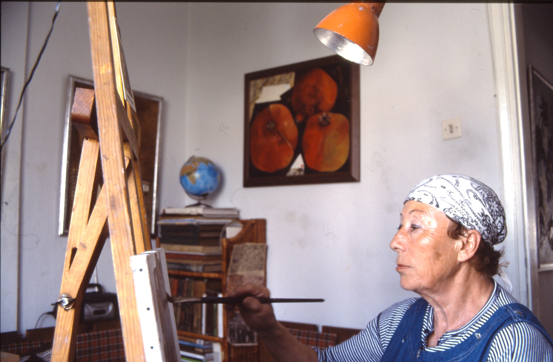 painter nevin çokay in her atelier, own photograph